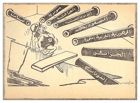 The mouths of the guns of eight Arab countries: Sudan, Algeria, United Arab Republic, Saudi Arabia, Jordan, Iraq, Syria and Lebanon. Al Jarida , Beirut, May 31, 1967